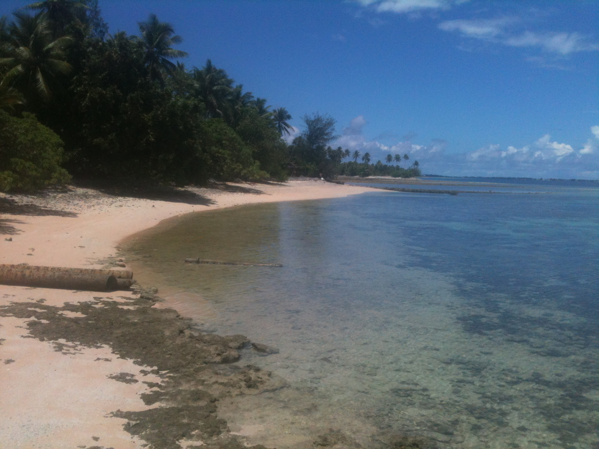 Photos from Bikrin Island in the Majuro Atoll, Republic of the Marshall Islands.